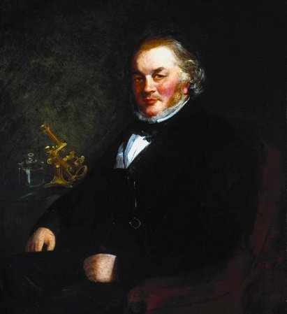 Oil painting, portrait of Paul Rapsey Hodge, 1850-1859